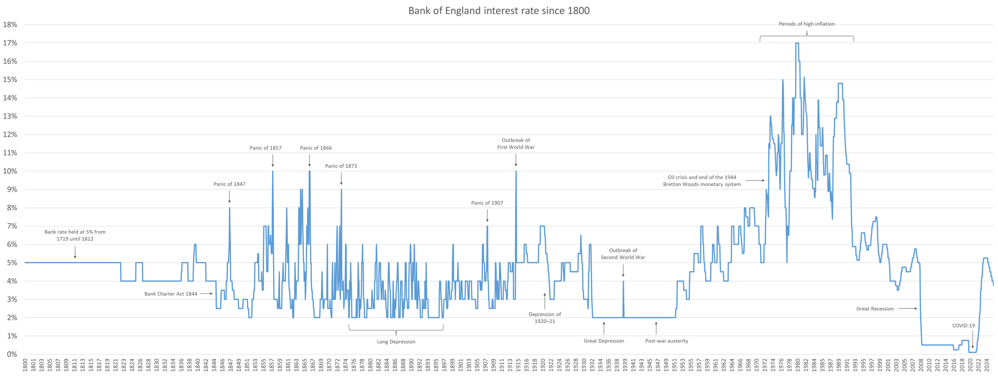 Chart showing the United Kingdom's interest rate, 1800 to 2016. Data from 'Interest rate changes since 1694' by The Guardian and 'Official Bank Rate history' by the Bank of England.